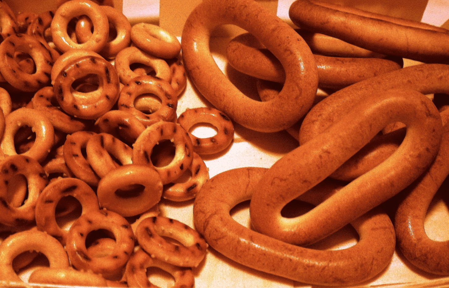 Sushki mini (left) and chelnochok (right). Baked by Ostankino baranki factory.